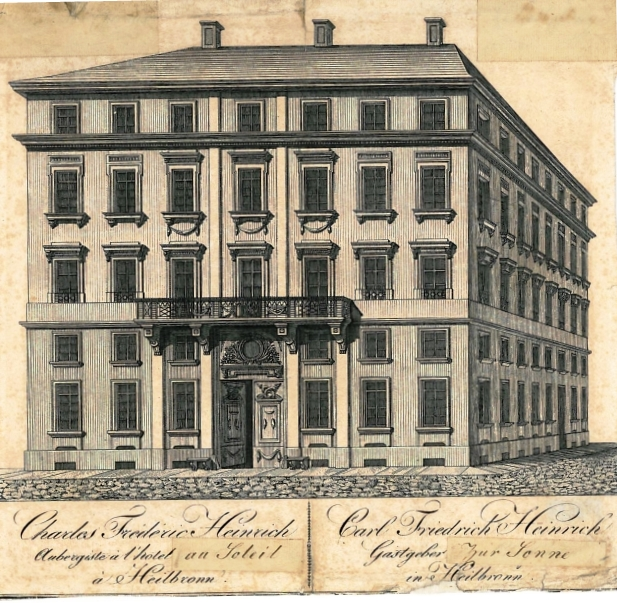 t